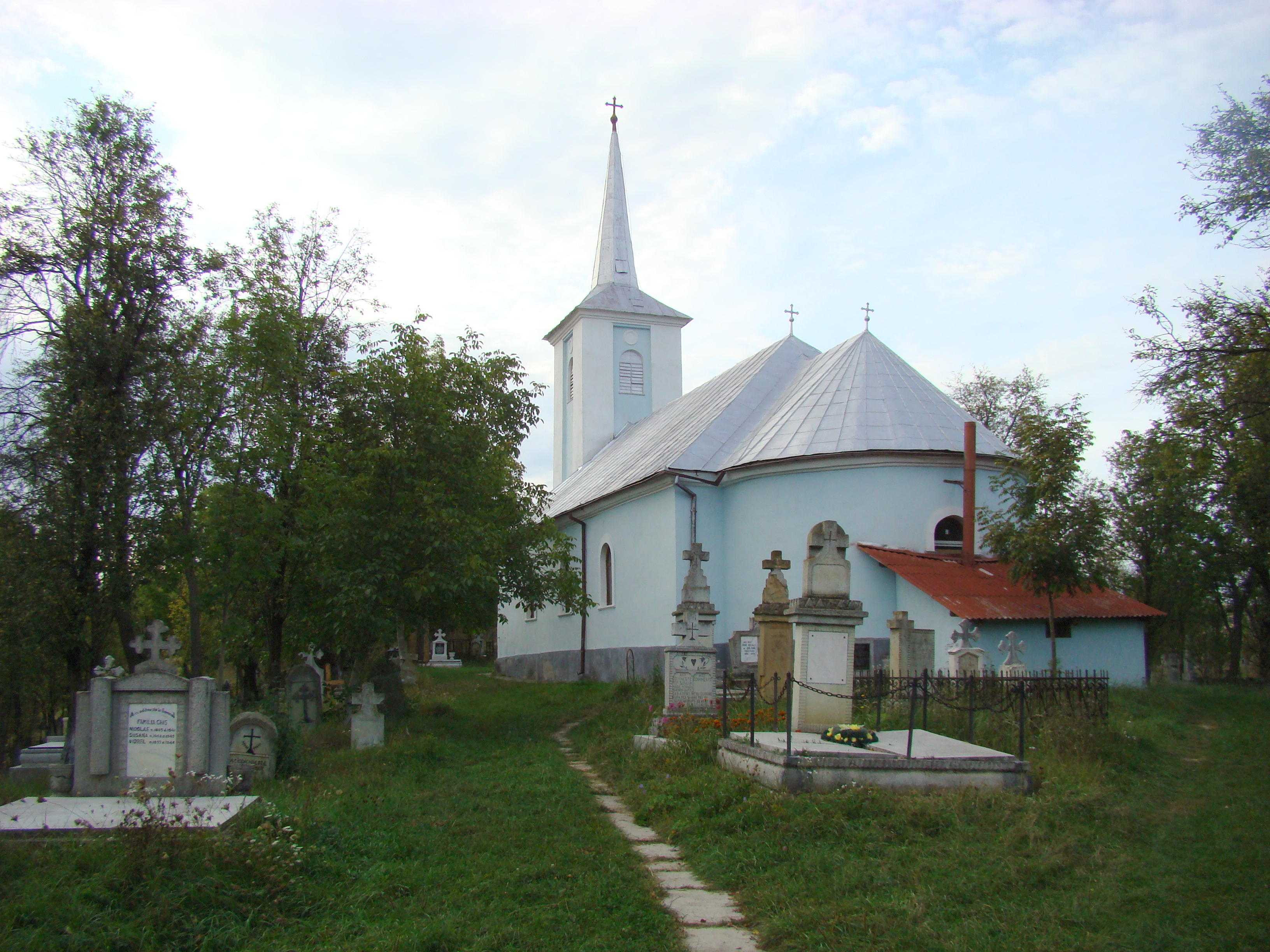 Orthodox church in Cubleșu Someșan, Cluj county, Romania